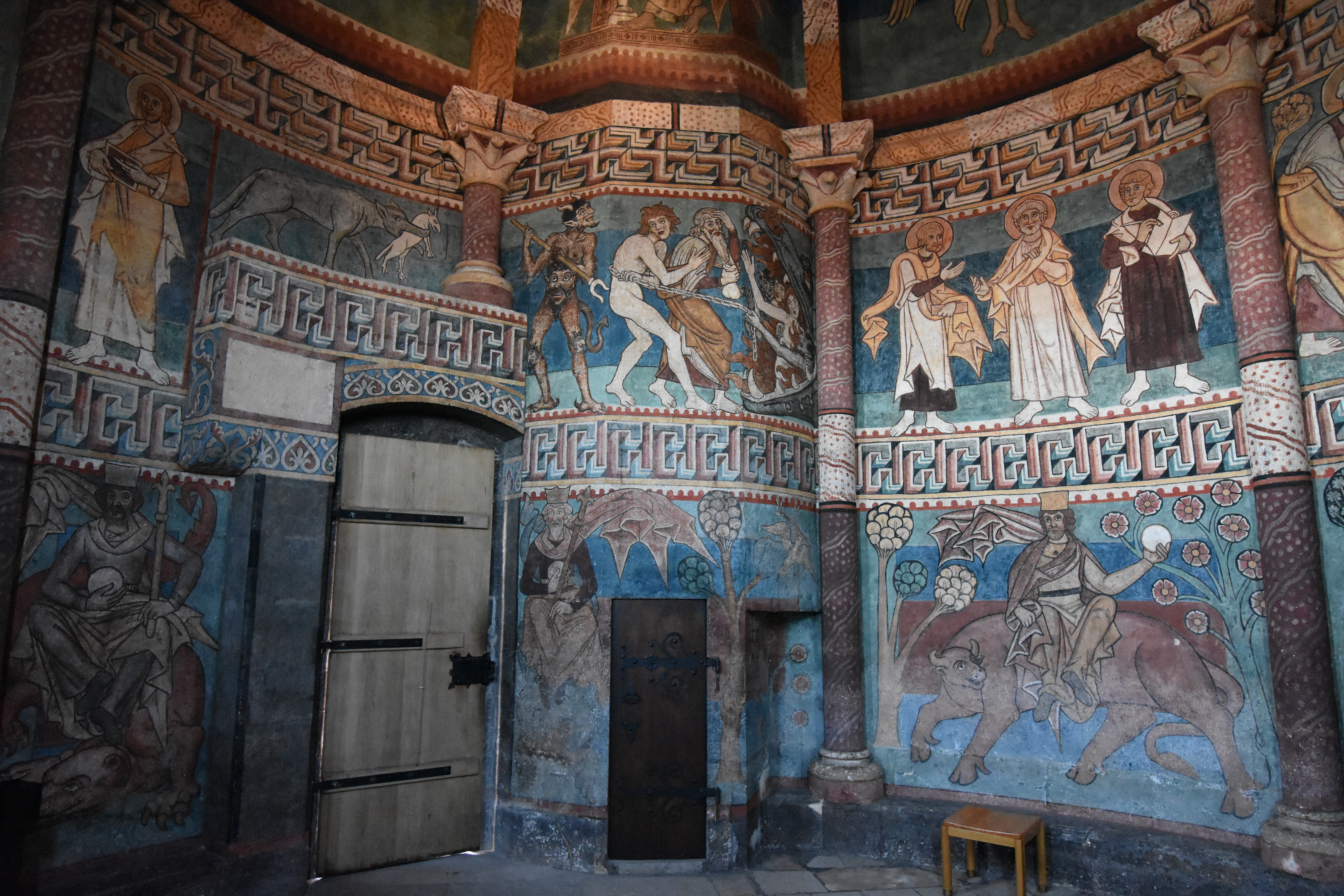 Karner, Hartberg - Interior